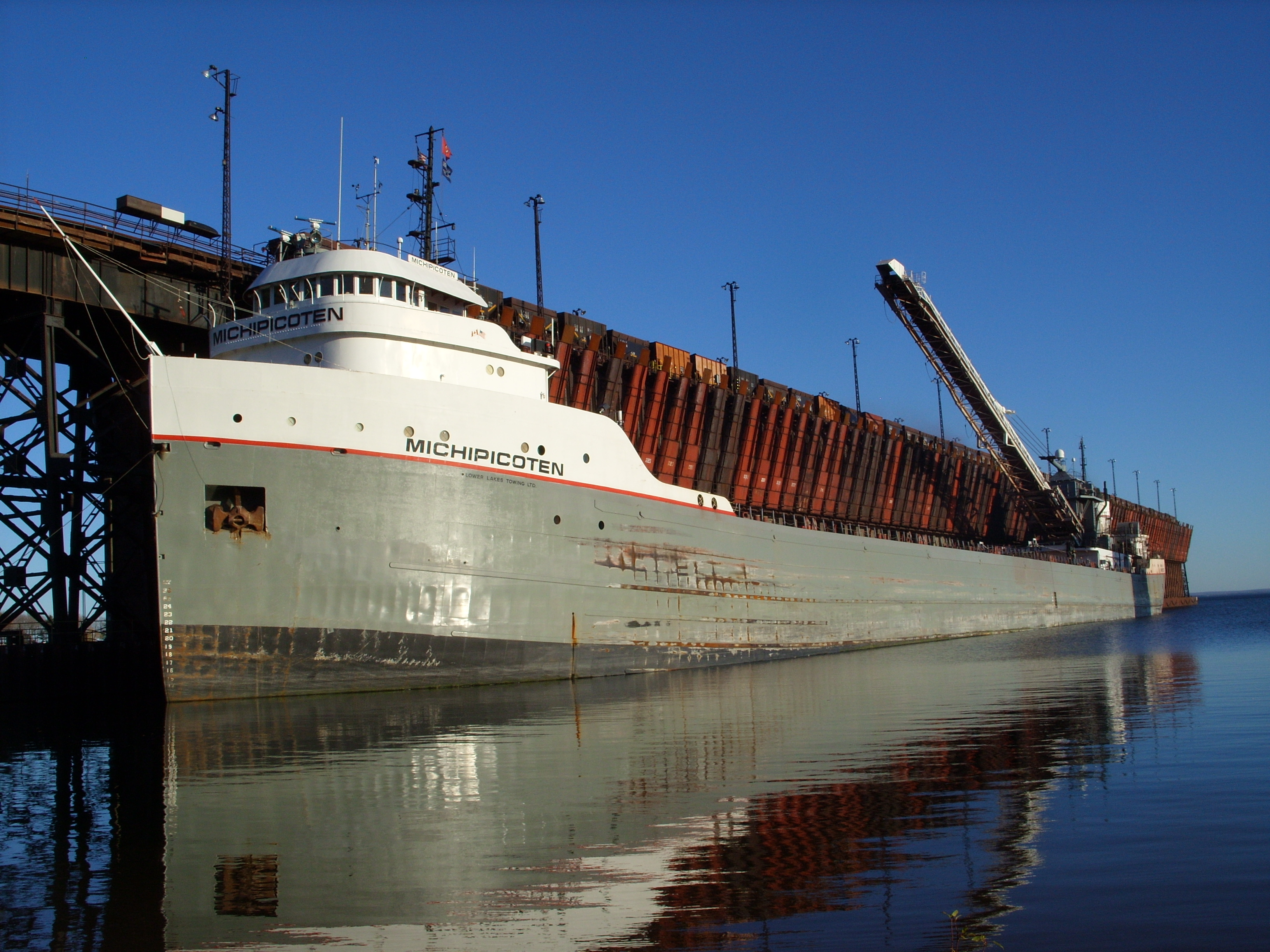 The Michipicoten at the ore dock in Marquette, Michigan waiting to be loaded with taconite pellets. IMO: 5102865, MMSI: 316002501